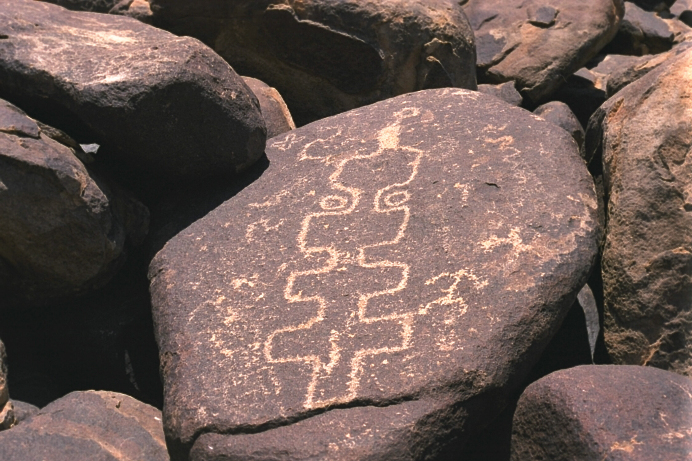 Wonderful petroglyphs can be found at Cocoraque Butte Archaeological District — in Ironwood Forest National Monument, Arizona.